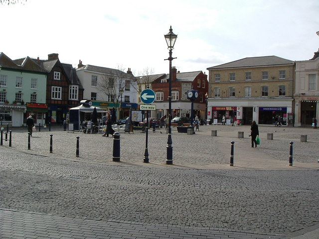 Old Market Square. Straight ahead is Bucklesbury. This is the site of special markets whereas the normal market takes place near to St. Marys Church and the Churchgate area.